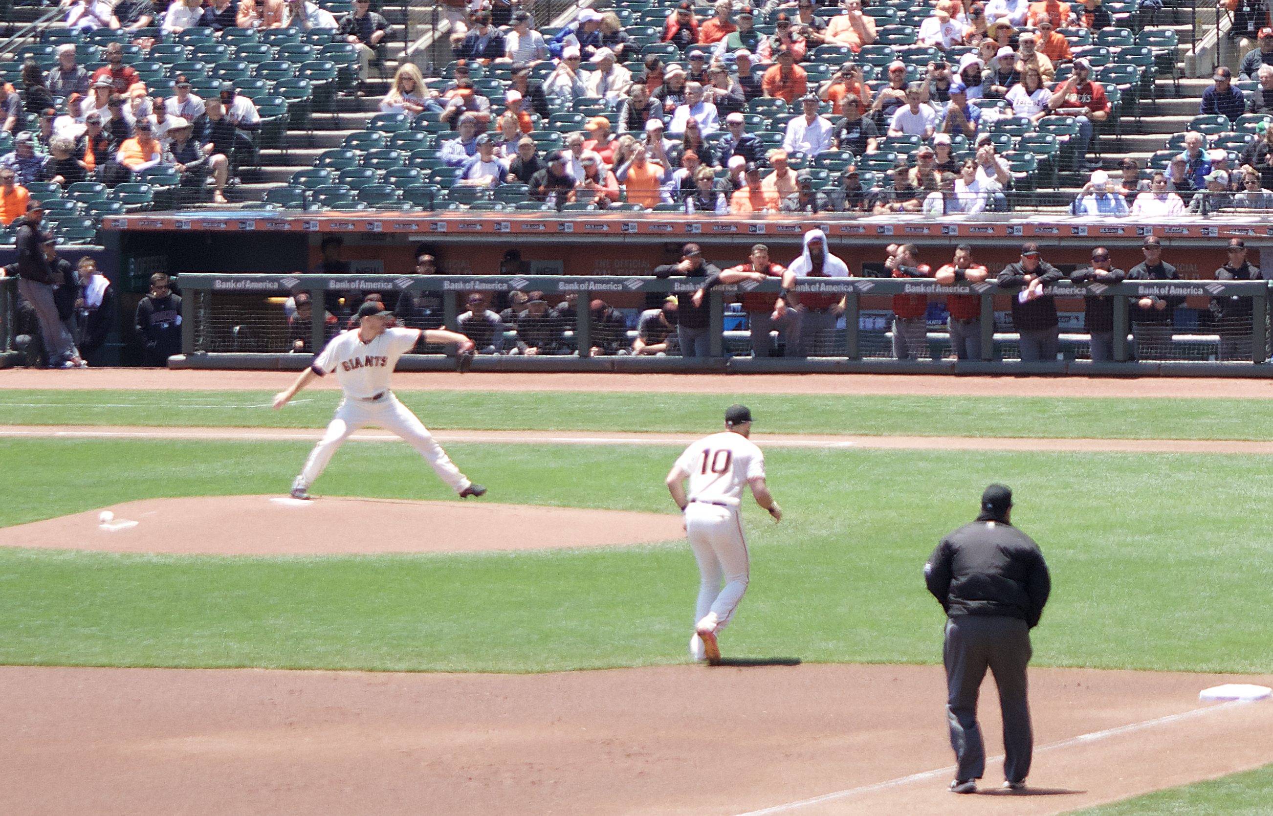 Chris Stratton pitching against the Arizona Diamondbacks in 2018